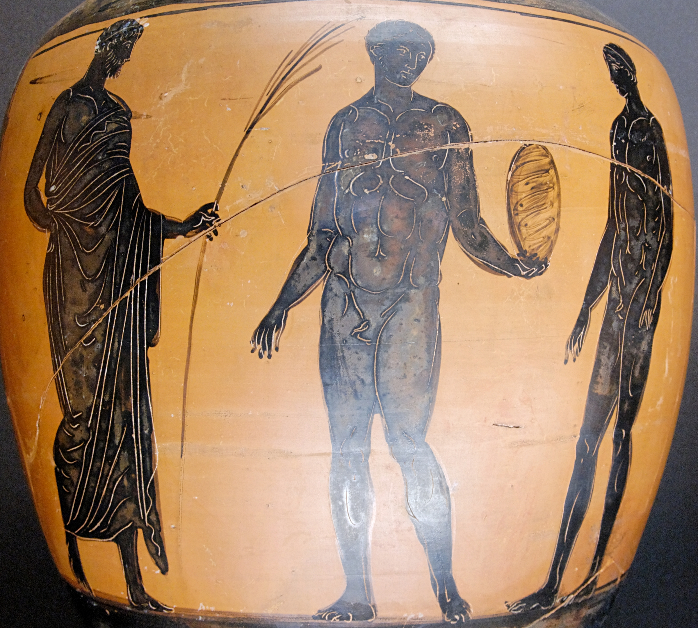 Discobolus, judge and athlete. Side B from an Attic black-figure Panathenaic amphora, 321–320 BC. From Benghazi (Cyrenaica, now in Libya).